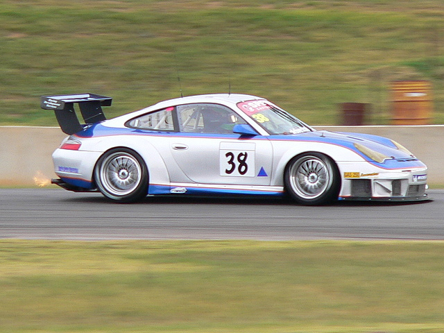 2006 Australian GT Championship season Porsche GT3 RSR race car number 38 driven by David Wall during Round 5 at Mallala Motor Sport Park with flames coming from the exhaust pipe